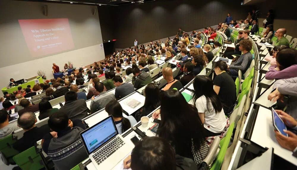 Khenpo Sodargye at Leiden University 2015